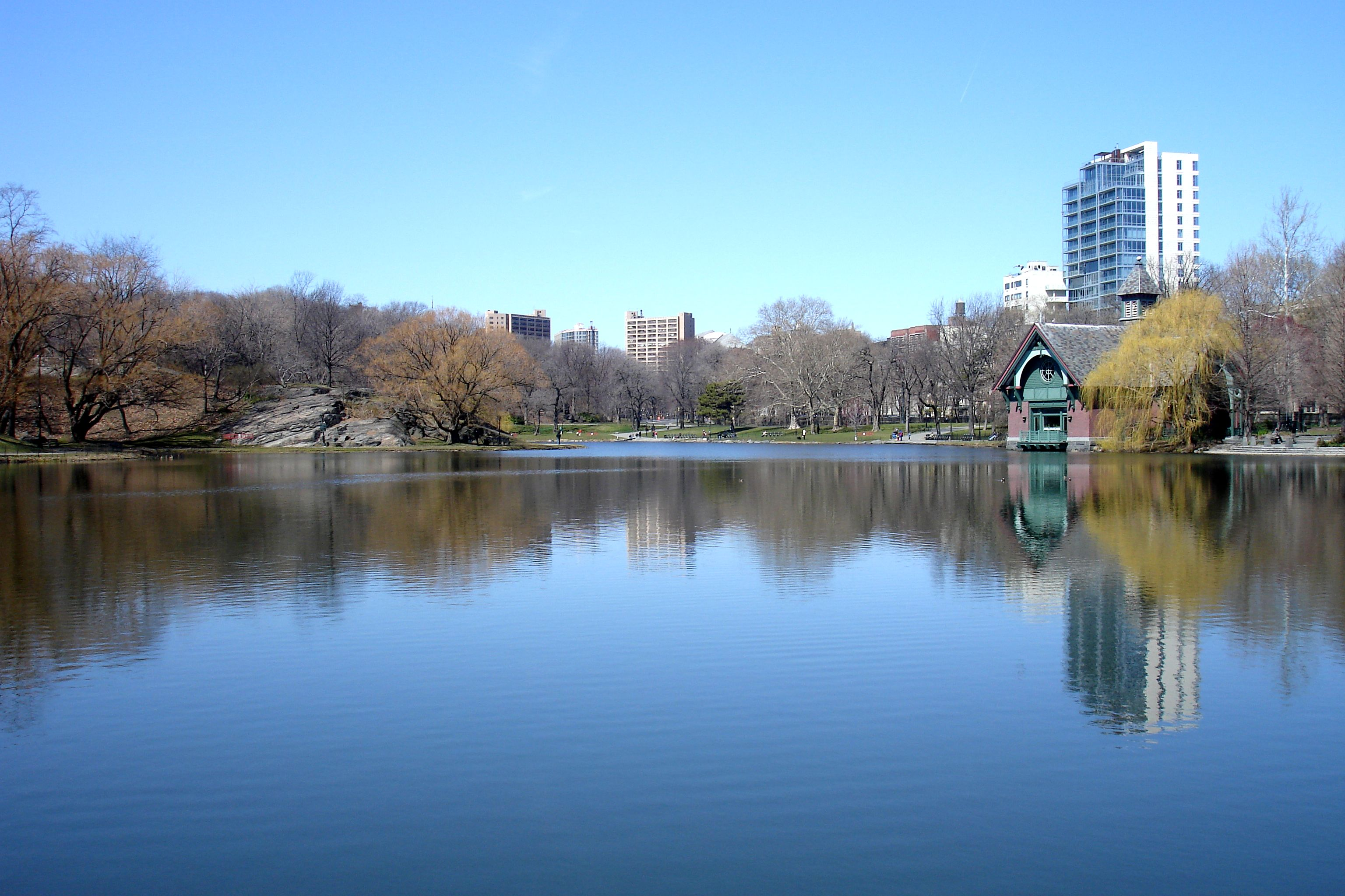 Harlem Meer in Central Park, New York NY